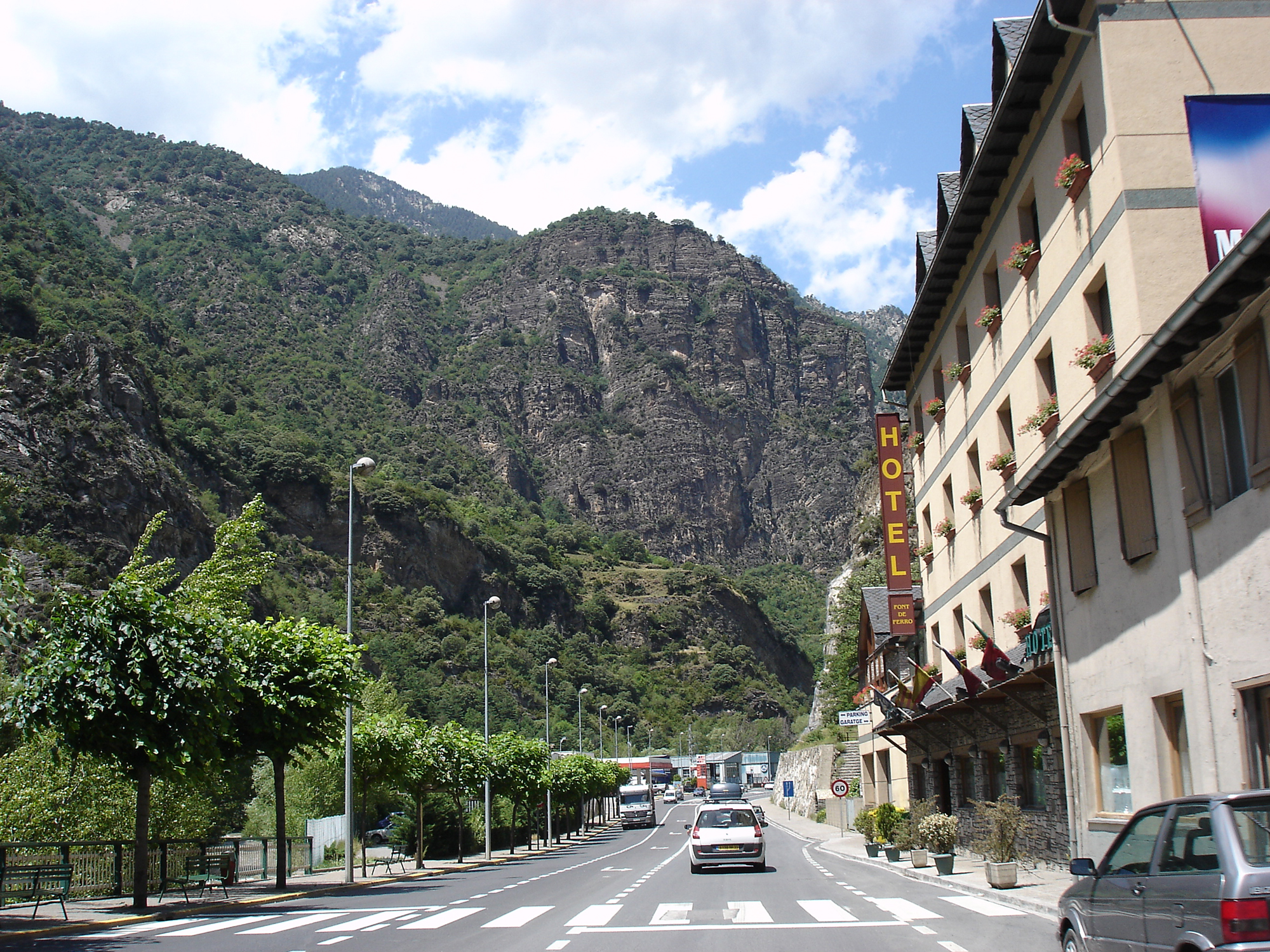 The CG-1 main road in the parish of Sant Julià de Lòria, Andorra